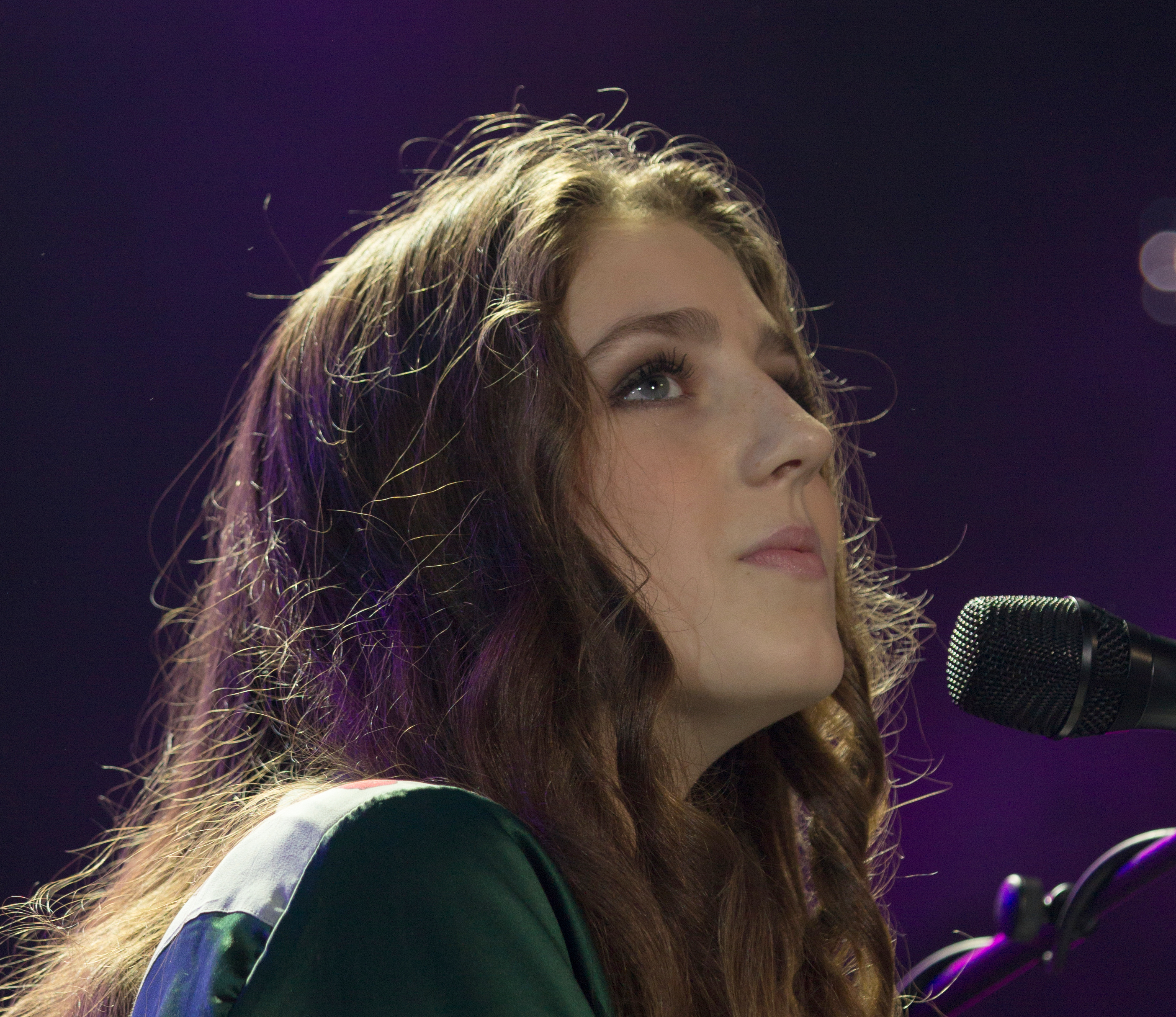 Birdy, New Pop Festival, Baden Baden, 2013 (file has been modified by User:Sardaka by cropping and lightening, 2018-3-2)